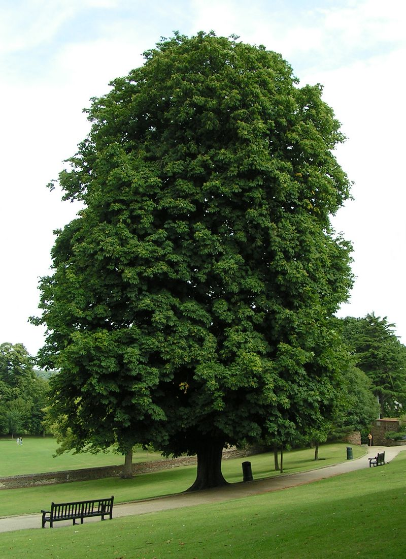 Horse-chestnut. Colchester, Essex, United Kingdom.